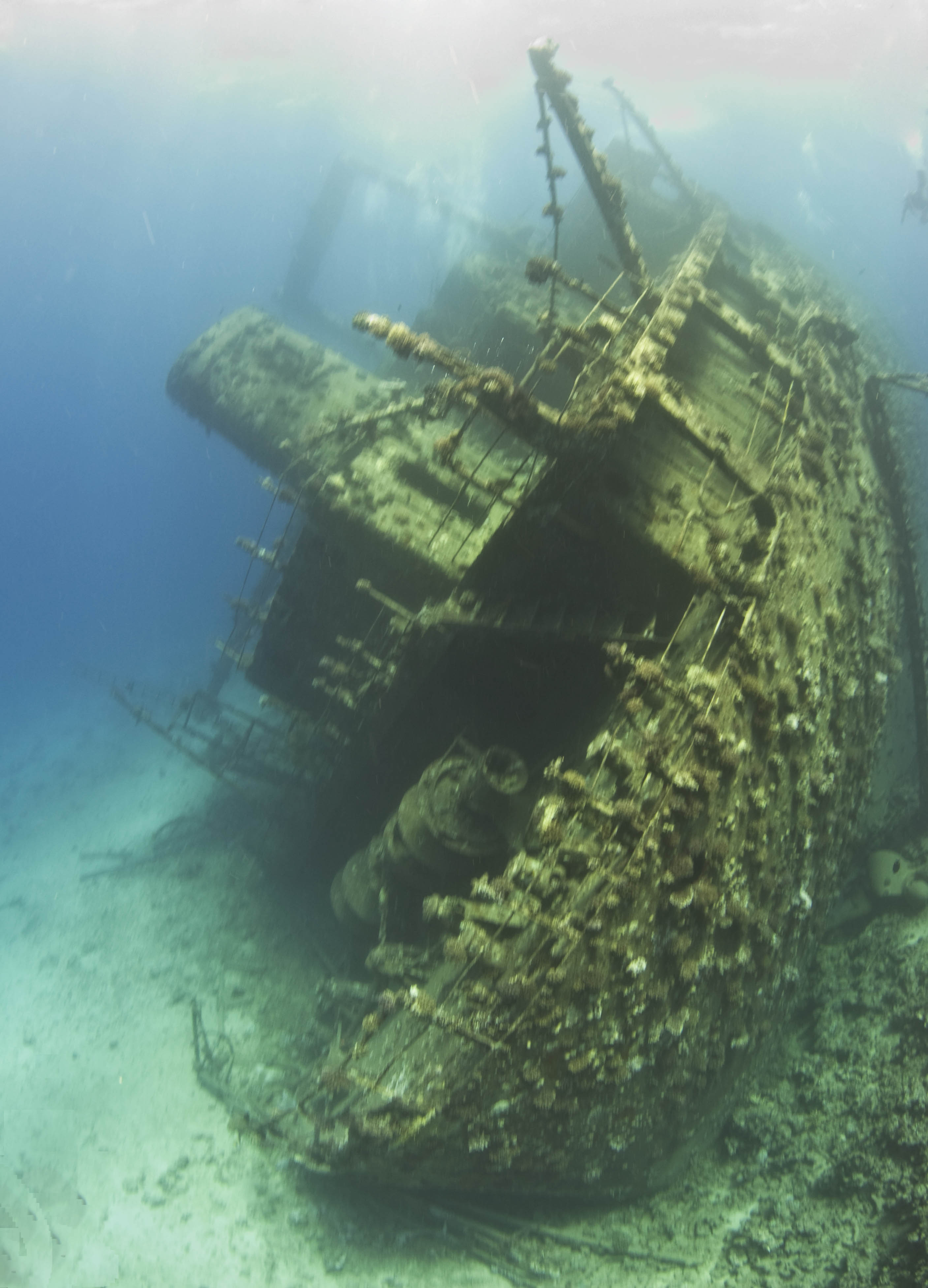 Ghiannis D wreck Egypt